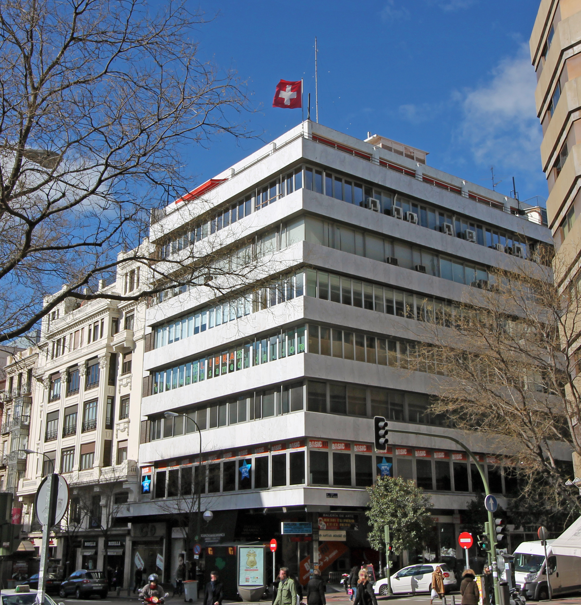 Building at 43 Calle de Goya (street) in Madrid (Spain). It is home to the Swiss Embassy in Spain.